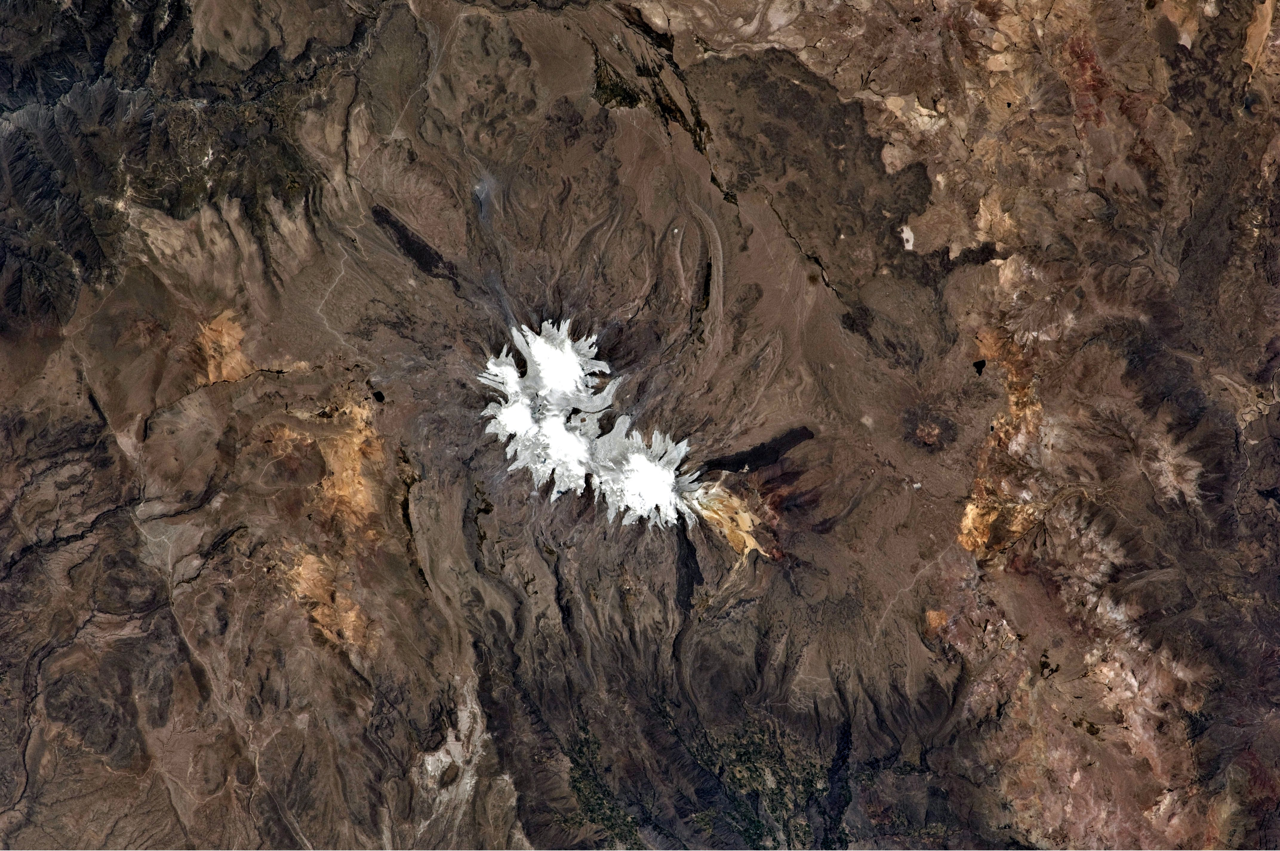 Coropuna hosts several summit glaciers and ice fields that contrast sharply with the dark rock outcrops and surface deposits at lower elevations.